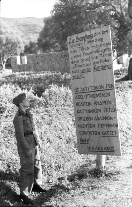 Information added by Wikimedia users.Translation: In retaliation to the brutal murder of paratroopers and combat engineers in an ambush by armed men and women, Kandanos was destroyed.